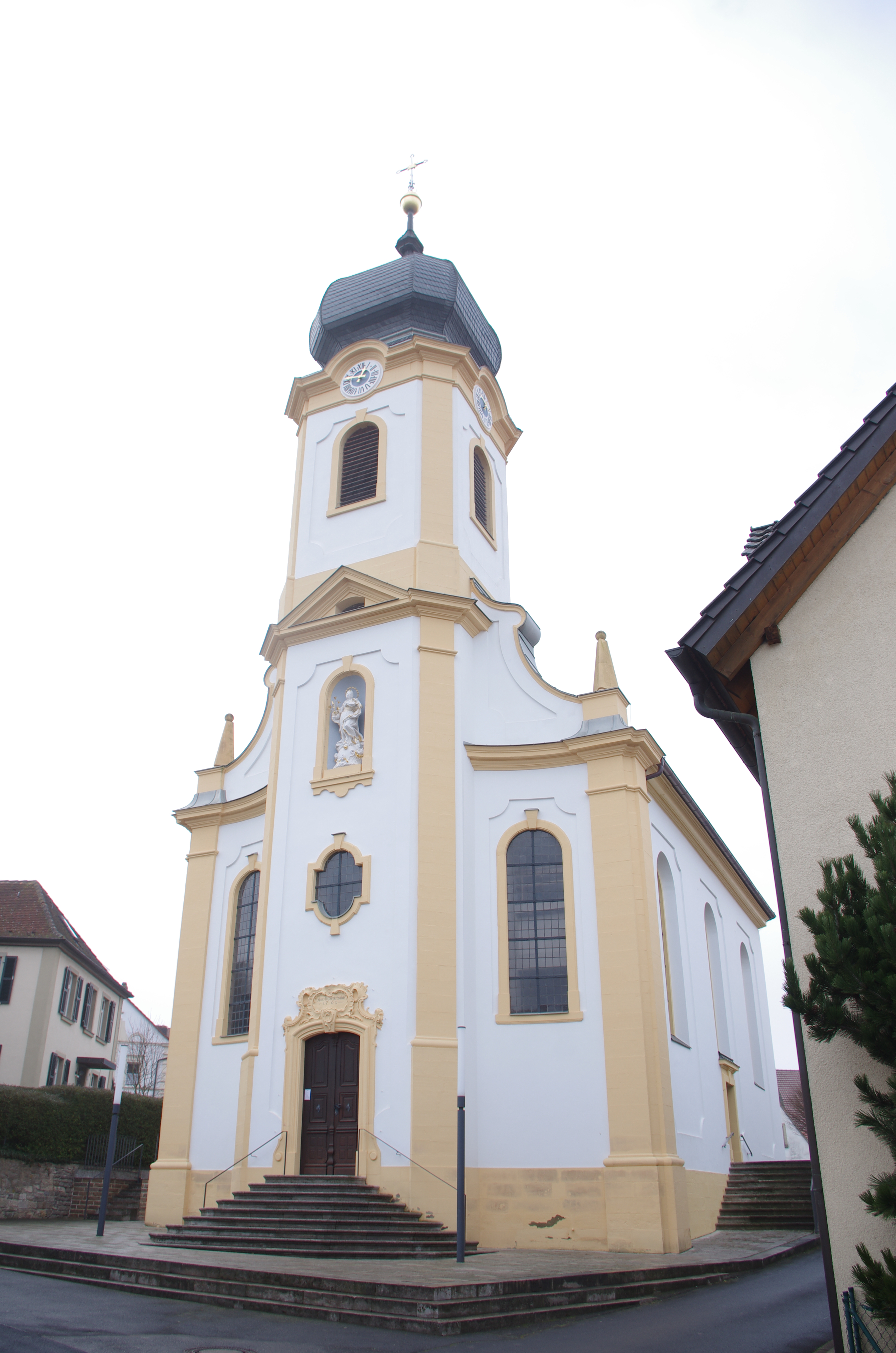 Object location49° 56′ 33.68″ N, 10° 08′ 48.84″ E